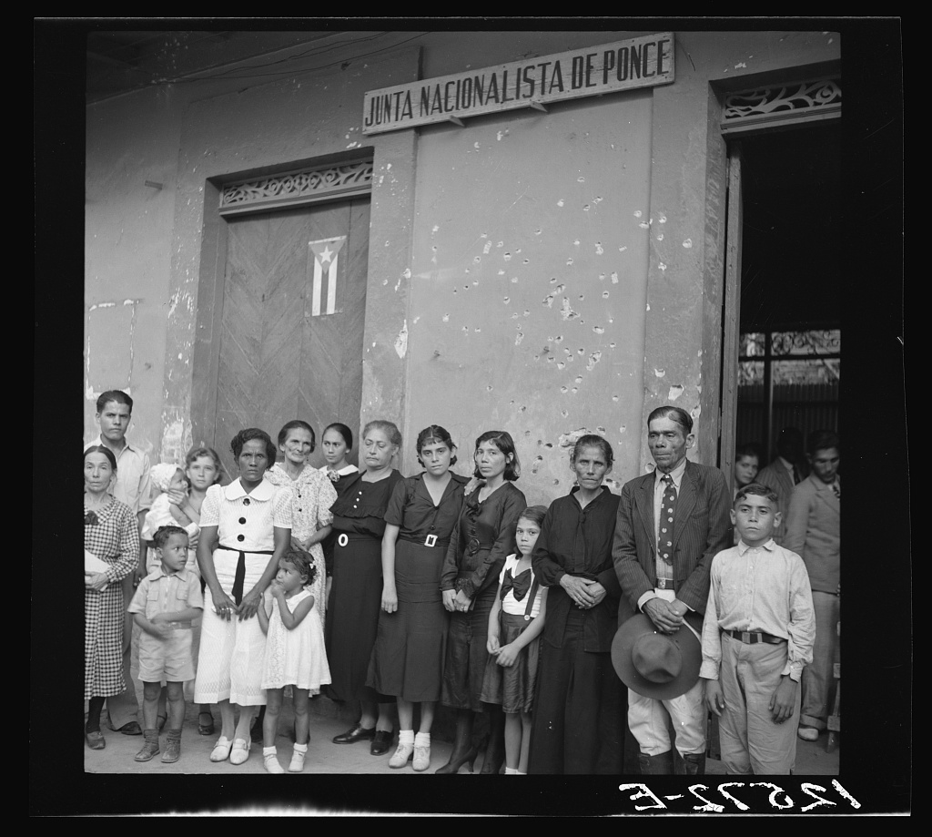 Relatives of Nationalists killed in the Ponce massacre in front of Nationalist Party headquarters. Machine gun bullet holes in the wall. Ponce, Puerto Rico